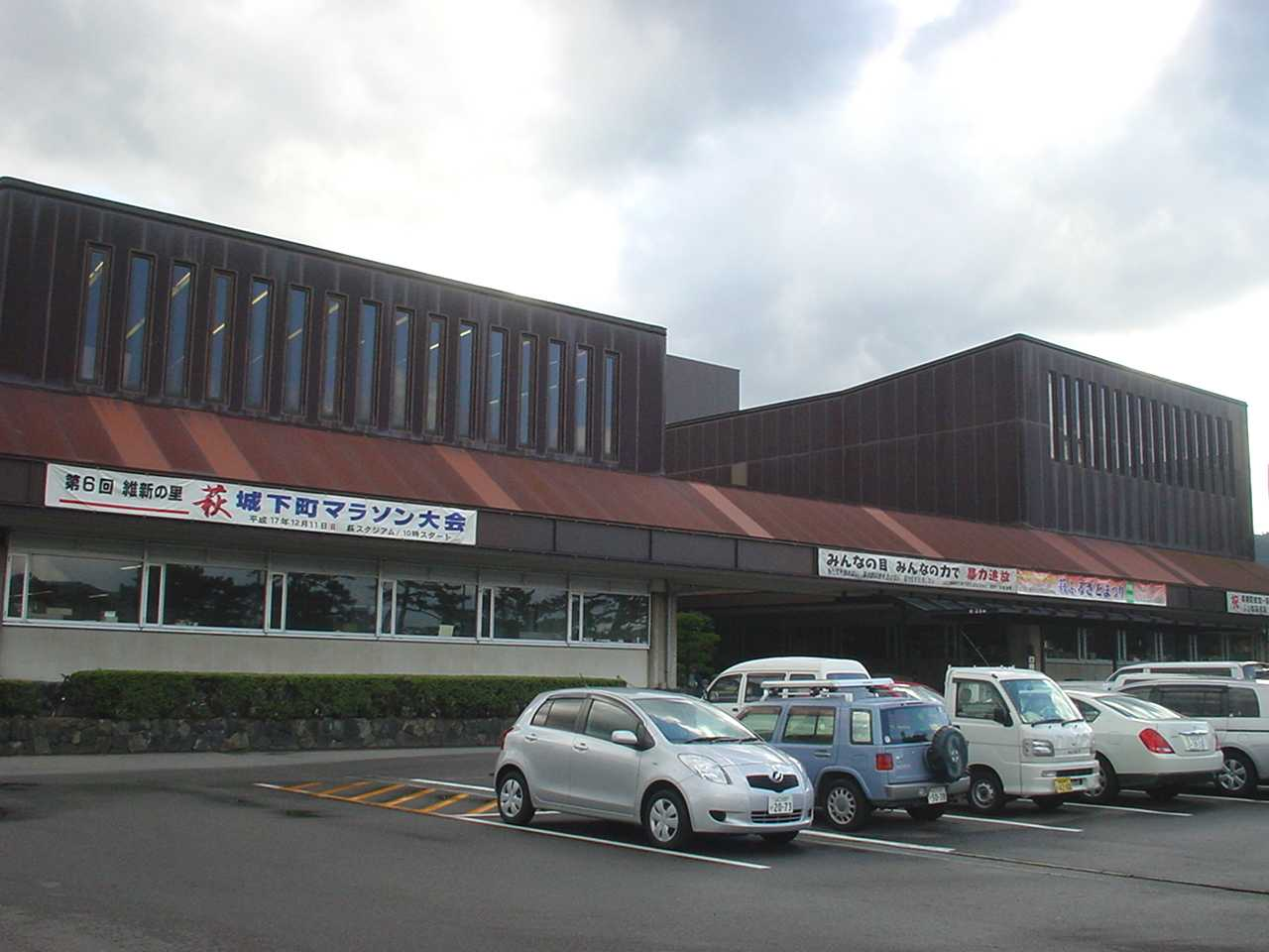 Hagi City Hall in Yamaguchi Prefecture, Japan